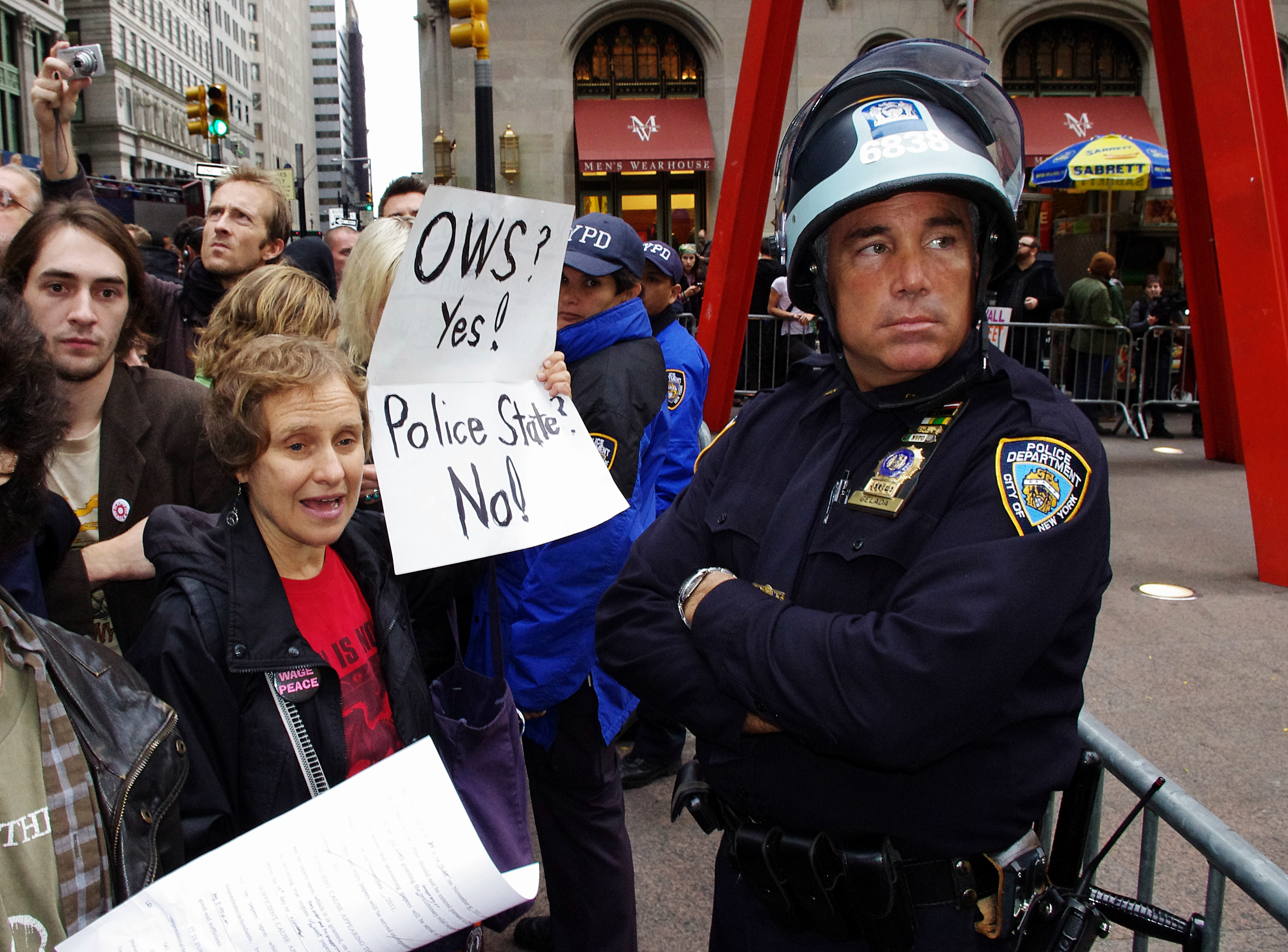 Tuesday morning the police evicted the Occupy Wall Street protesters and cleaned the park. Tensions ran high that morning - scenes from an empty Zuccotti around 9:15 a.m.; the regrouping of the protesters at a lot on Canal & 6th Street around 10:15 a.m.; and then their return to Zuccotti to confront the police around 11:00 a.m.